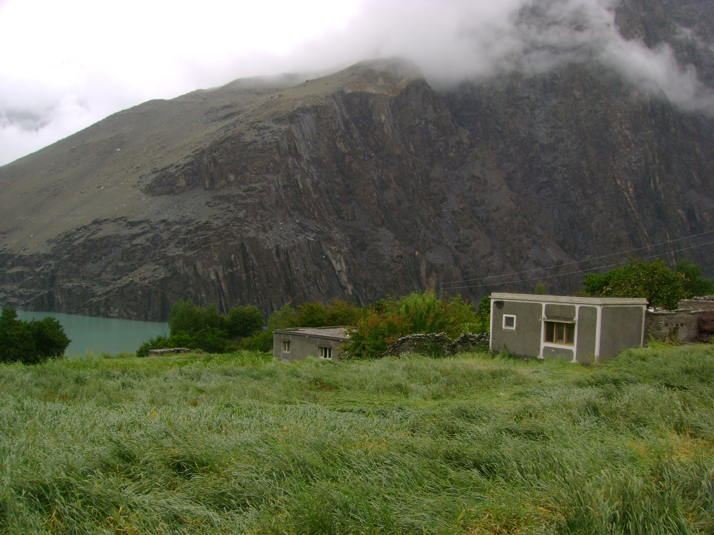 Lush green village Hussaini, Attabad Lake, Pakistan